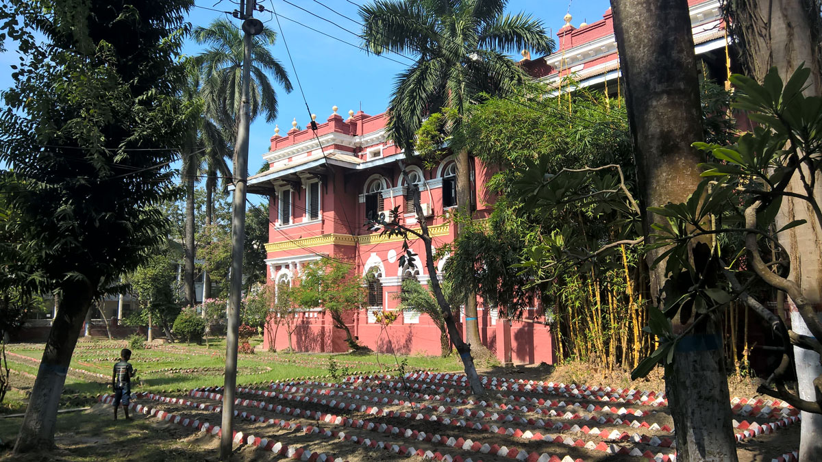 The main administrative building , is a good example of British Indian colonial architecture.